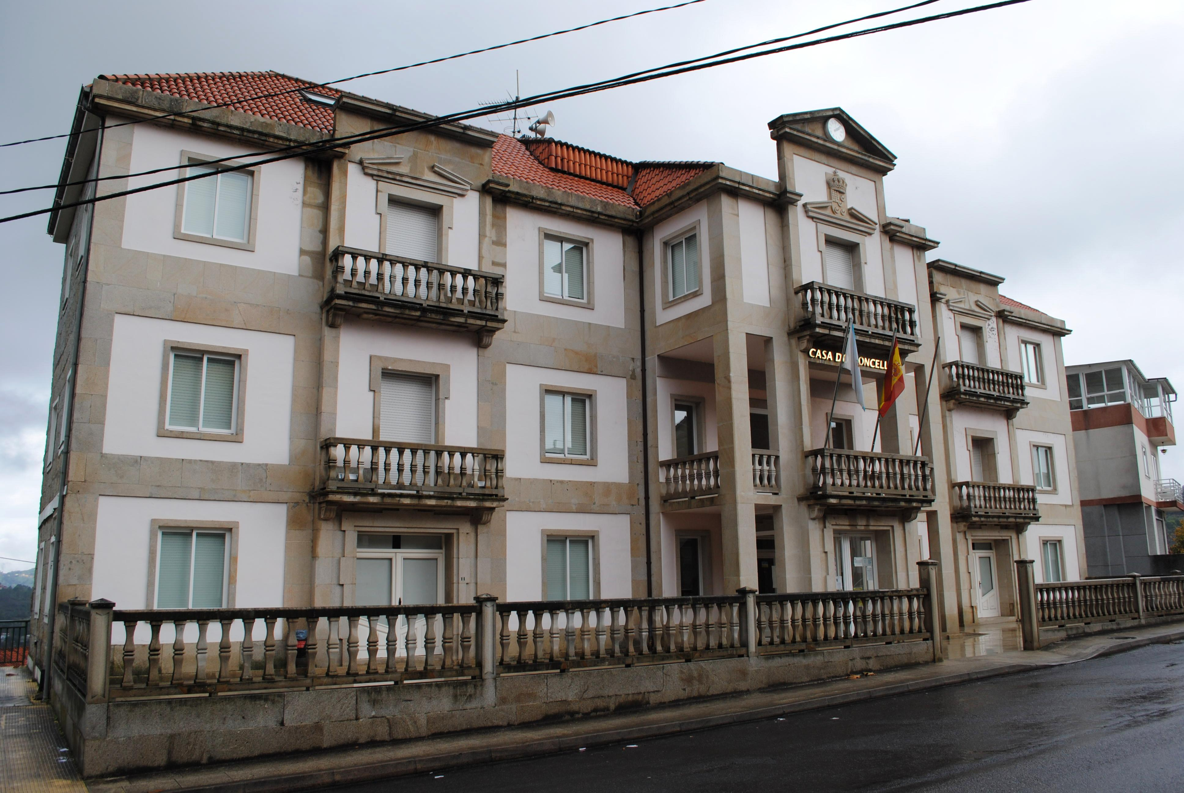 See title.